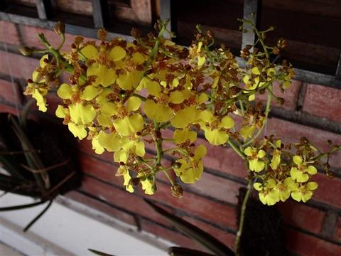 A work released per the GNU Free Documentation License by: Martín Javier Battiti de Tegucigalpa, Honduras